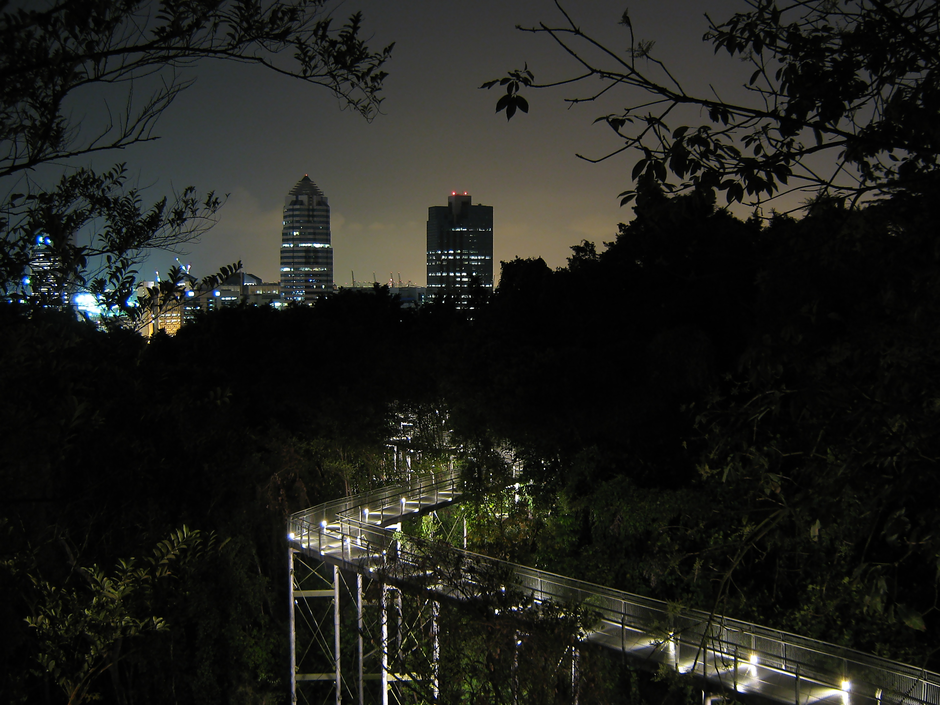 Telok Blangah Hill Park, Singapore, at night.